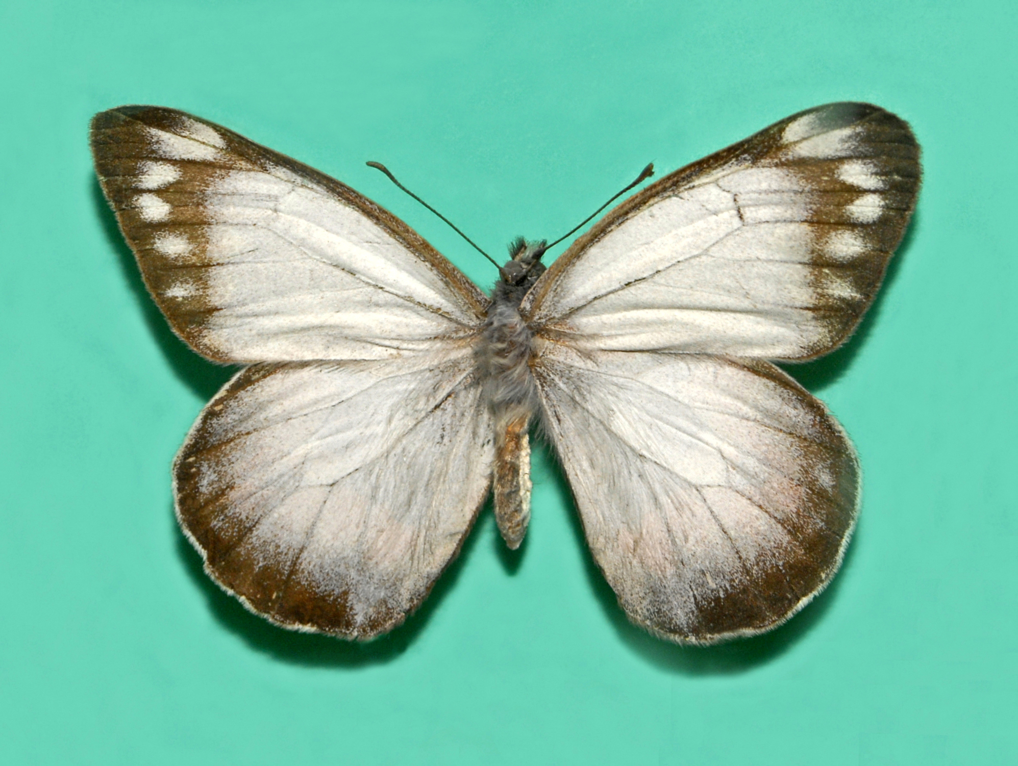 Museum specimen of Delias harpalyce, dorsal view. On display at the Museo Civico di Storia Naturale di Milano